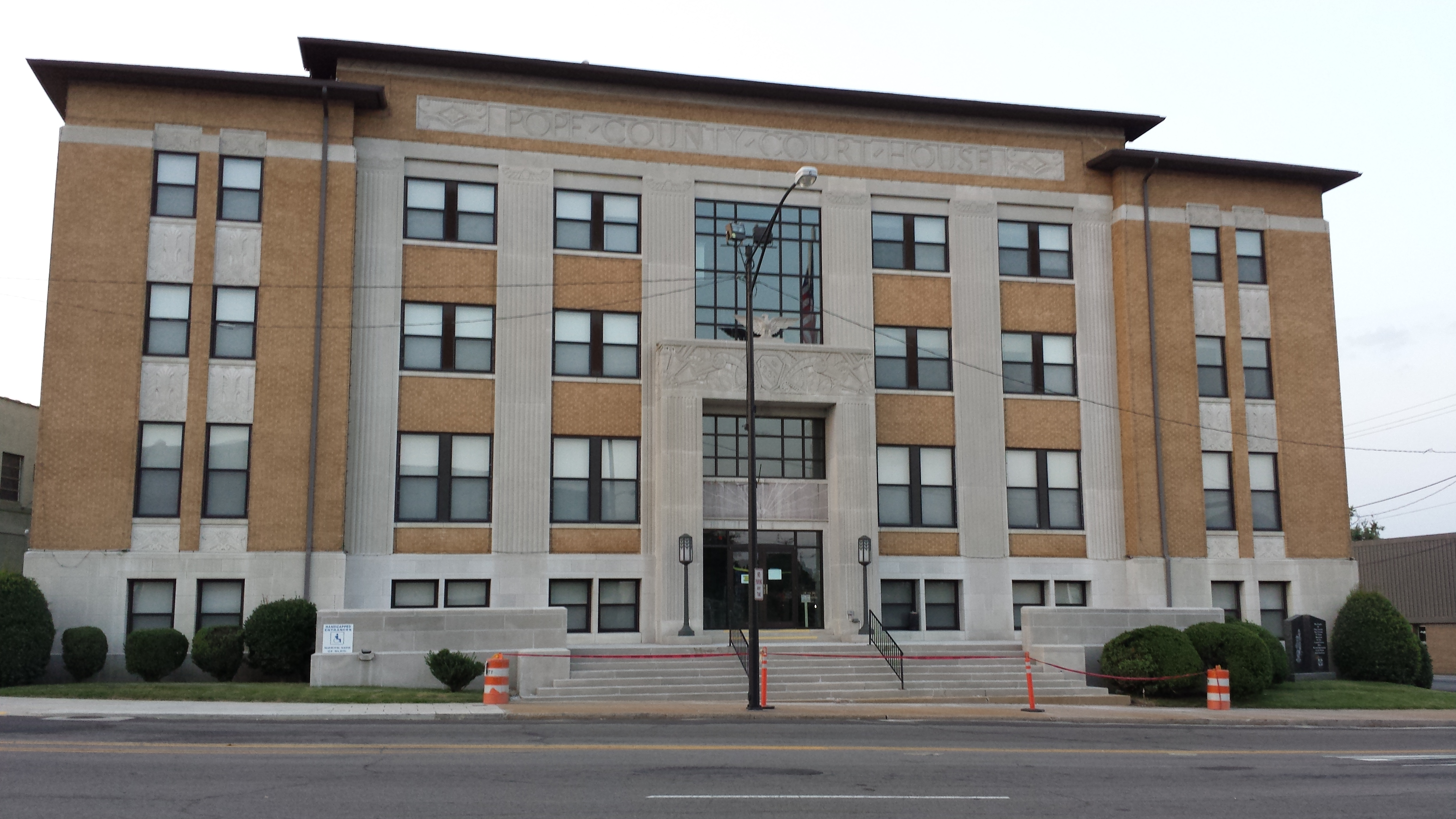 1931 courthouse at the intersection of Main St and Arkansas Ave in Russellville, AR